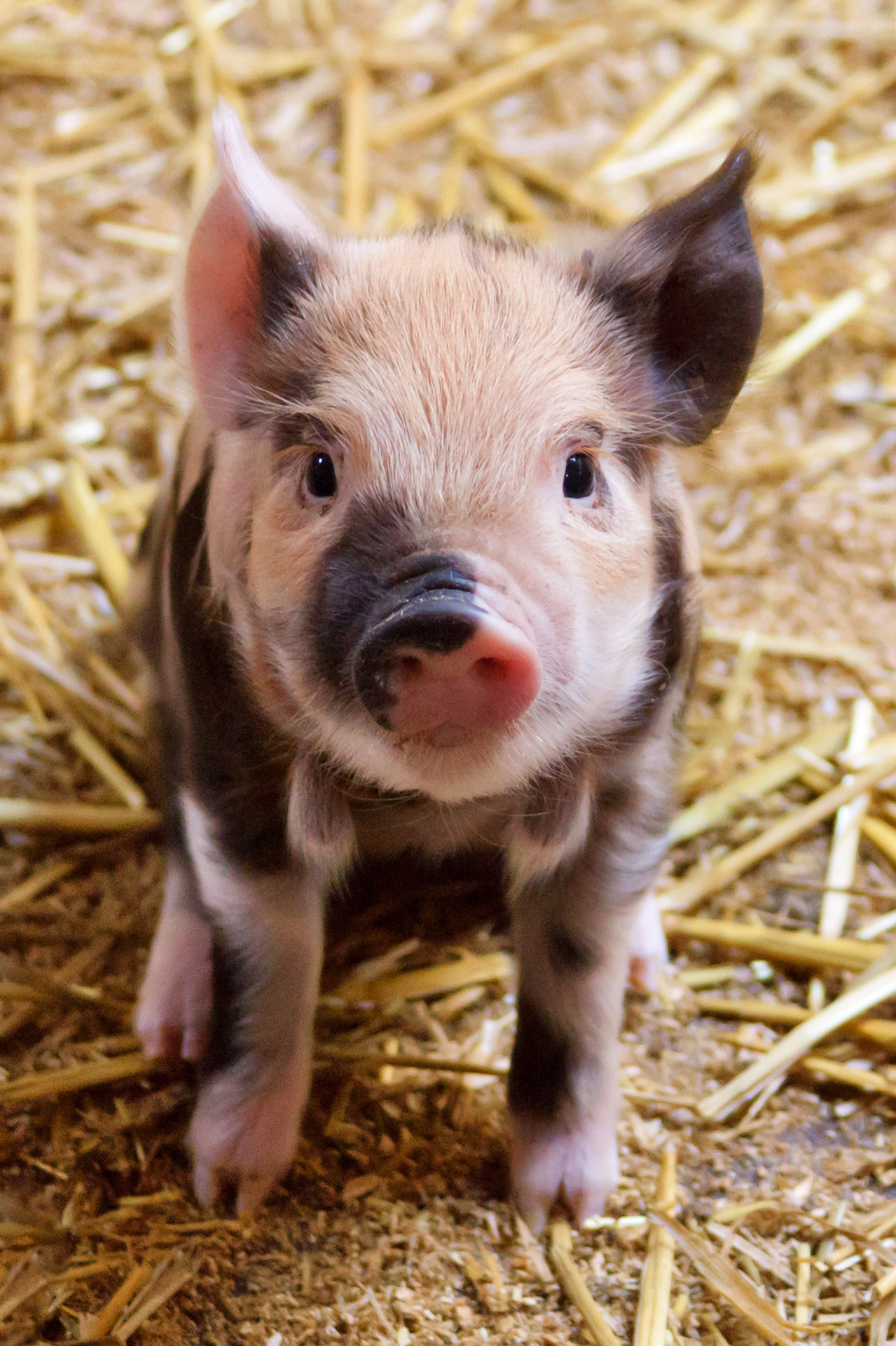 Tiny cute piglet looking at the photographer